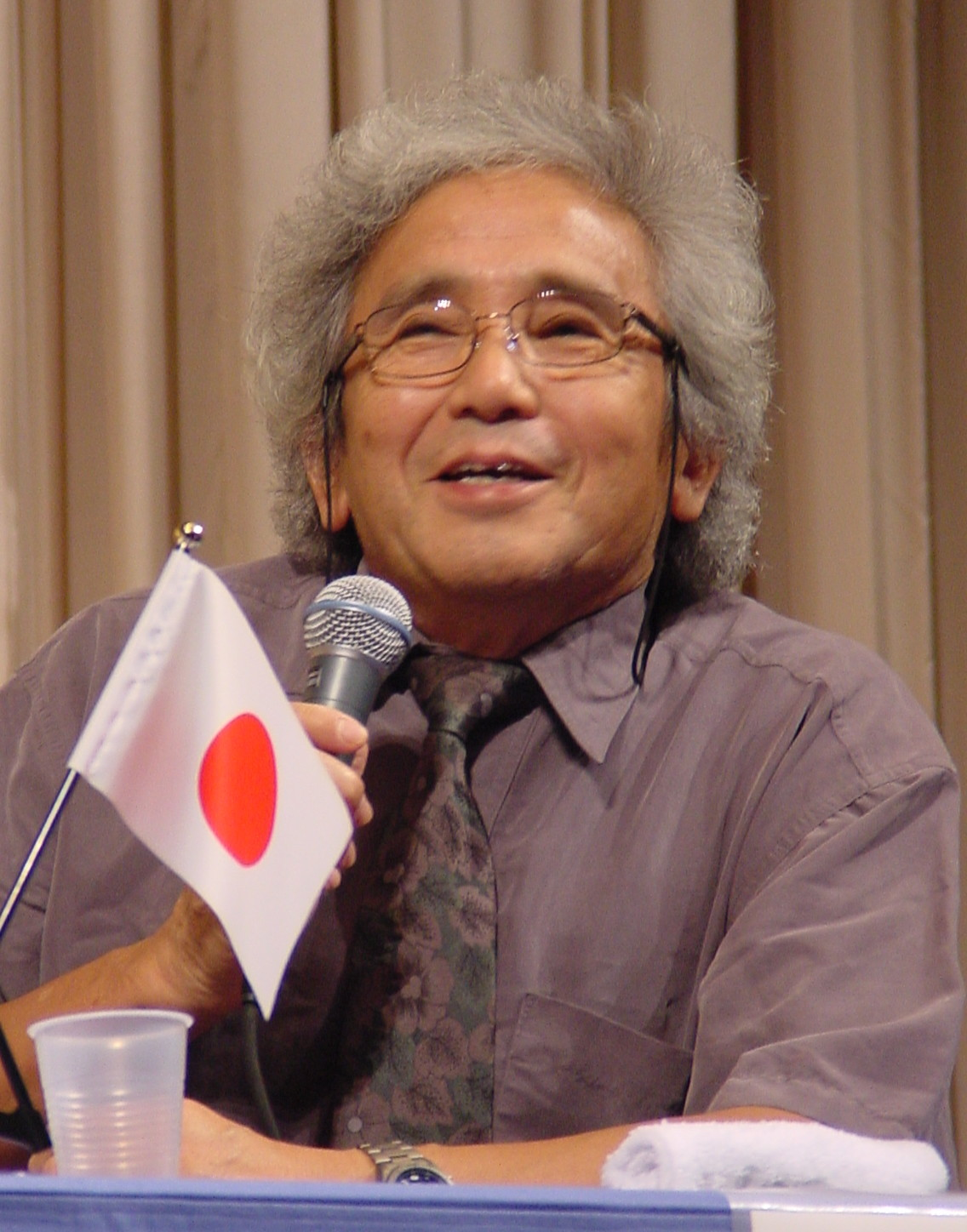 Japanese Cinematographer Yoshitaka Sakamoto in 2010